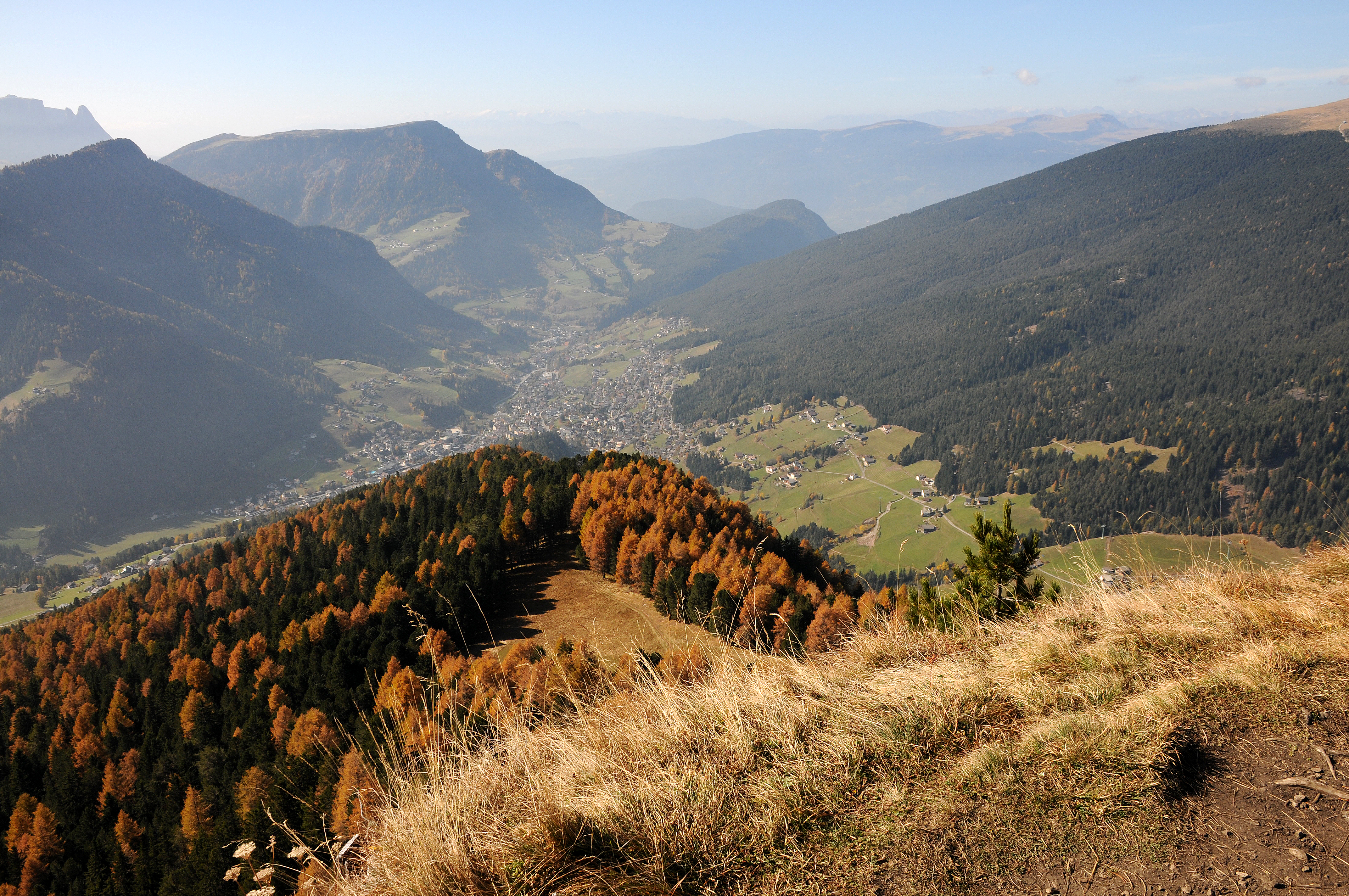 Urtijëi in Val Gardena from the mount Sëurasas.